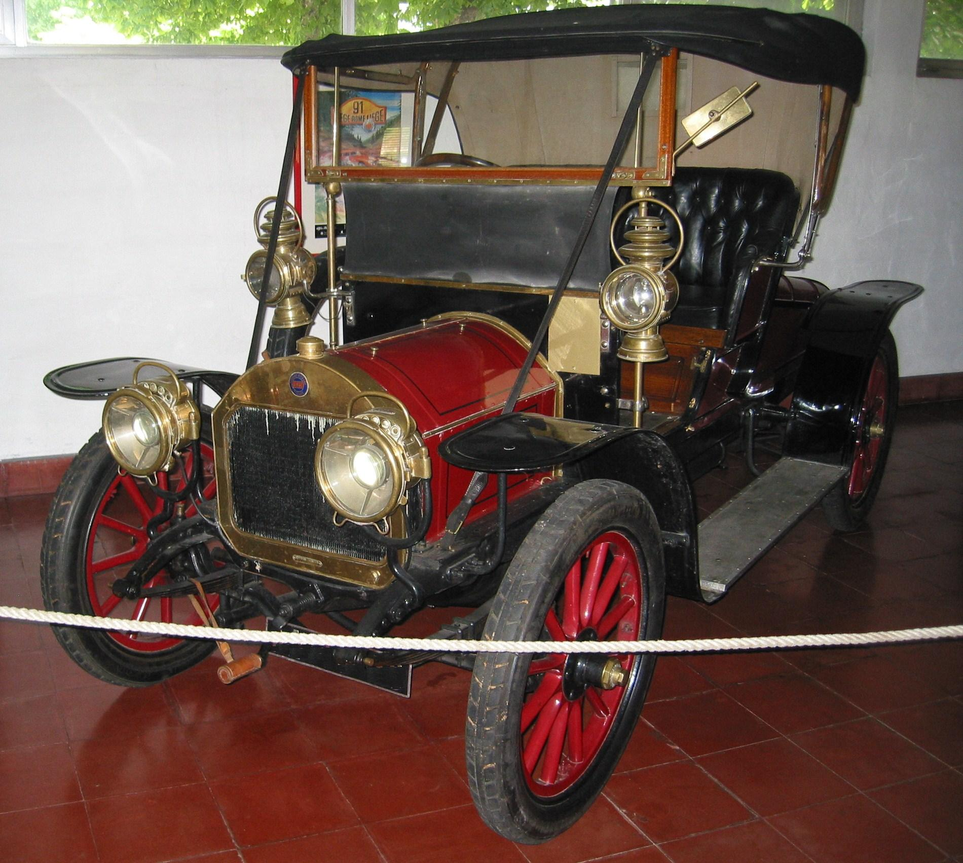 Unic 1909.